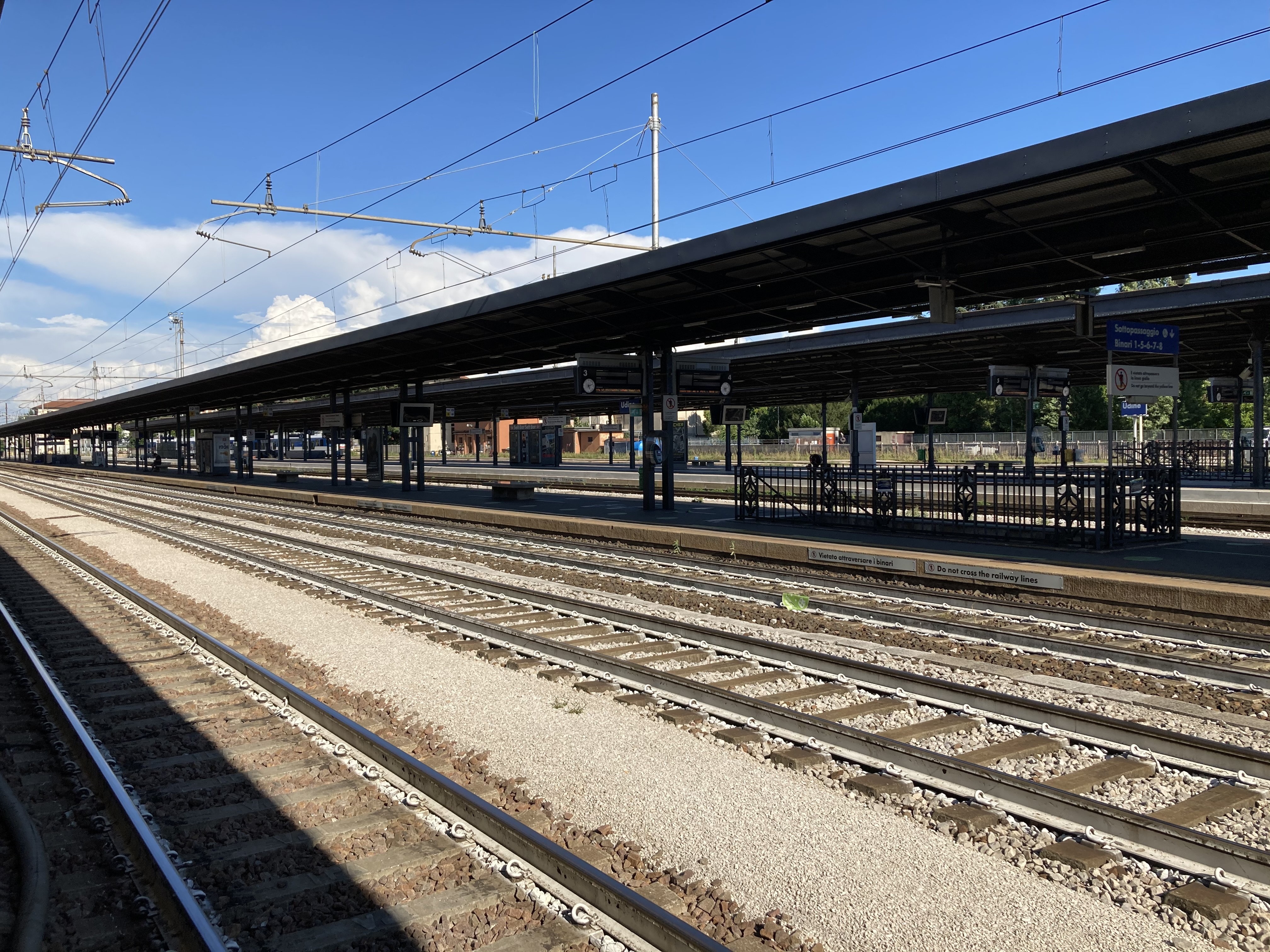 The Statione of Udine with a view from platform 1